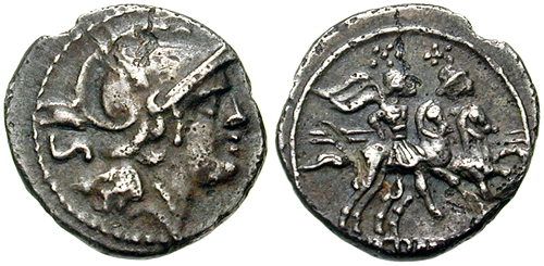 Anonymous AR sestertius. After 211 BC. Helmeted head of Roma right, IIS behind The Dioscuri riding right, ROMA in linear frame below. RSC4, C44/7, BMC13.